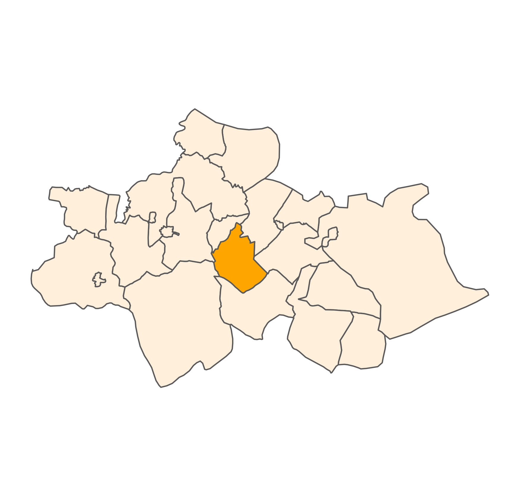 Commune (Orange), Sefrou Province (Antique White)